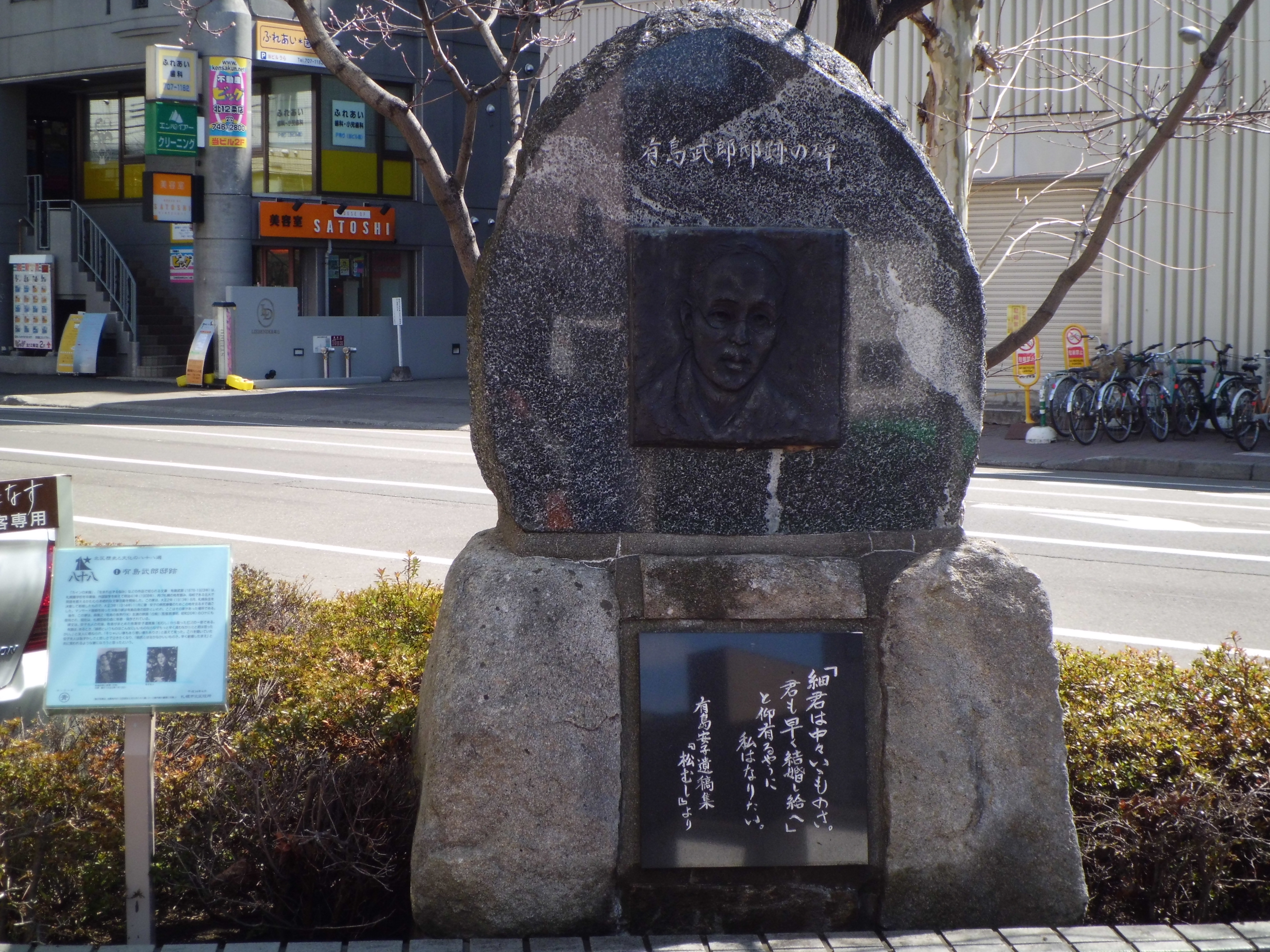 Monument to House of Takeo Arishima